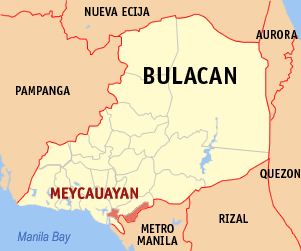 Map of Bulacan showing the location of Meycauayan